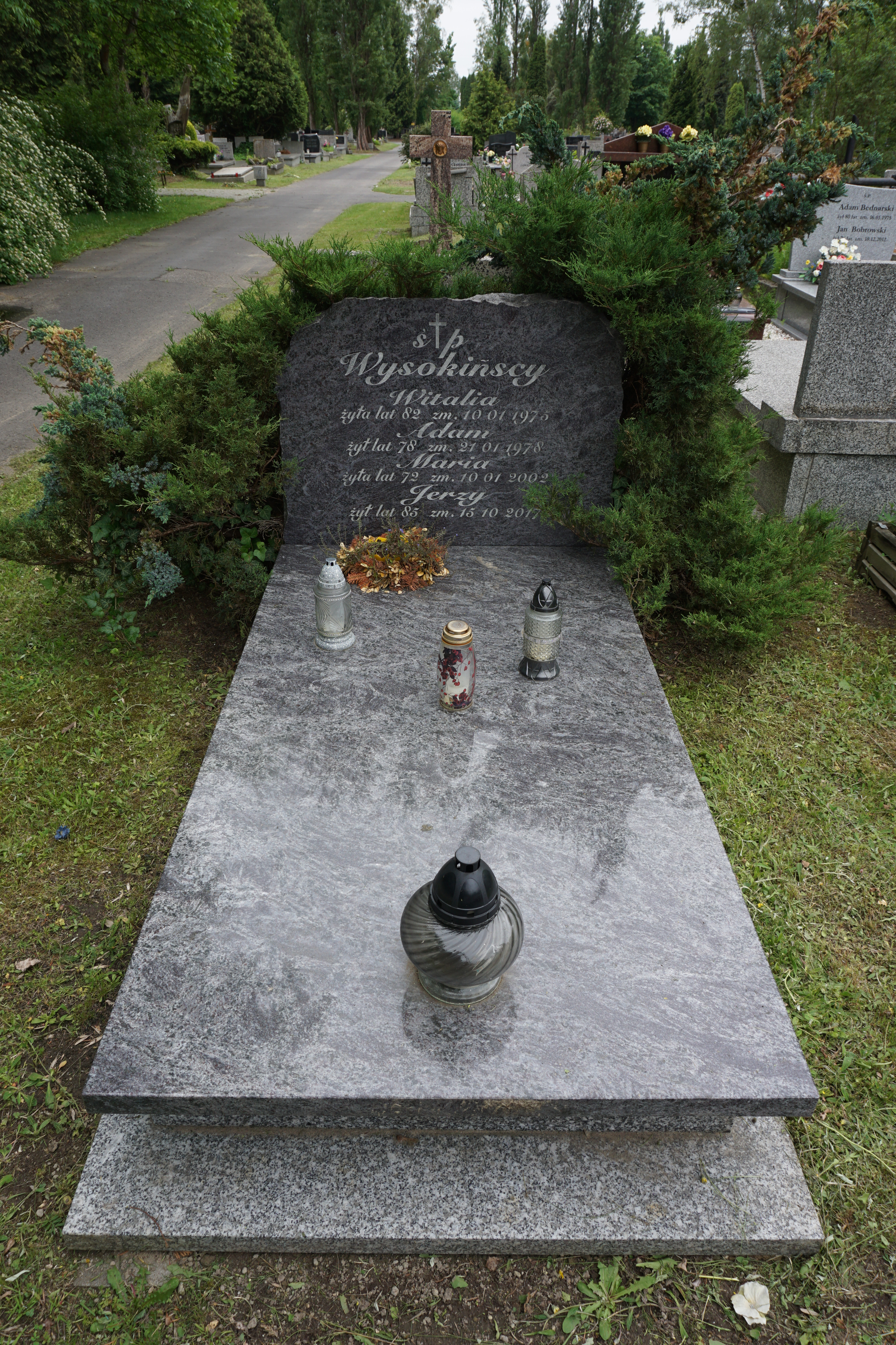 The grave of Jerzy Wysokiński at the North Municipal Cemetery in Warsaw (section E-XV-5, row 3, grave 10)